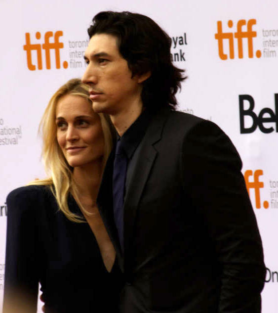 Adam Driver from While We're Young